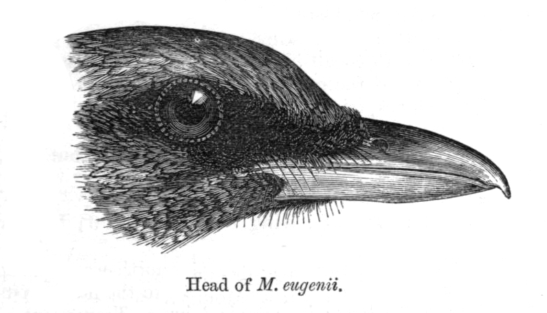 Head of Myophonus caeruleus